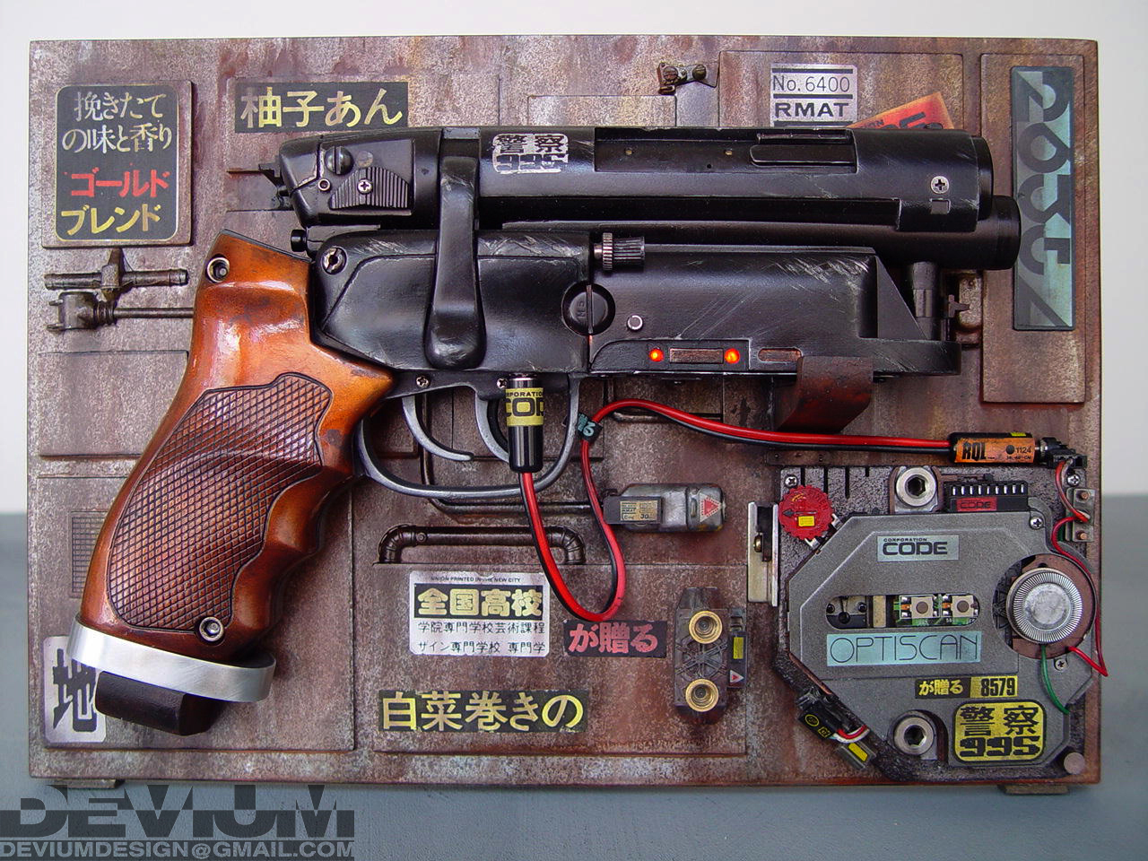 Built sometime in the late 1980's. Added the display and some modifications before being shown at Things from Another World when it first opened at Universal Citywalk.